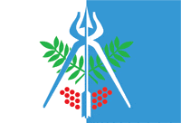 Izhevsk (Udmurtia), flag